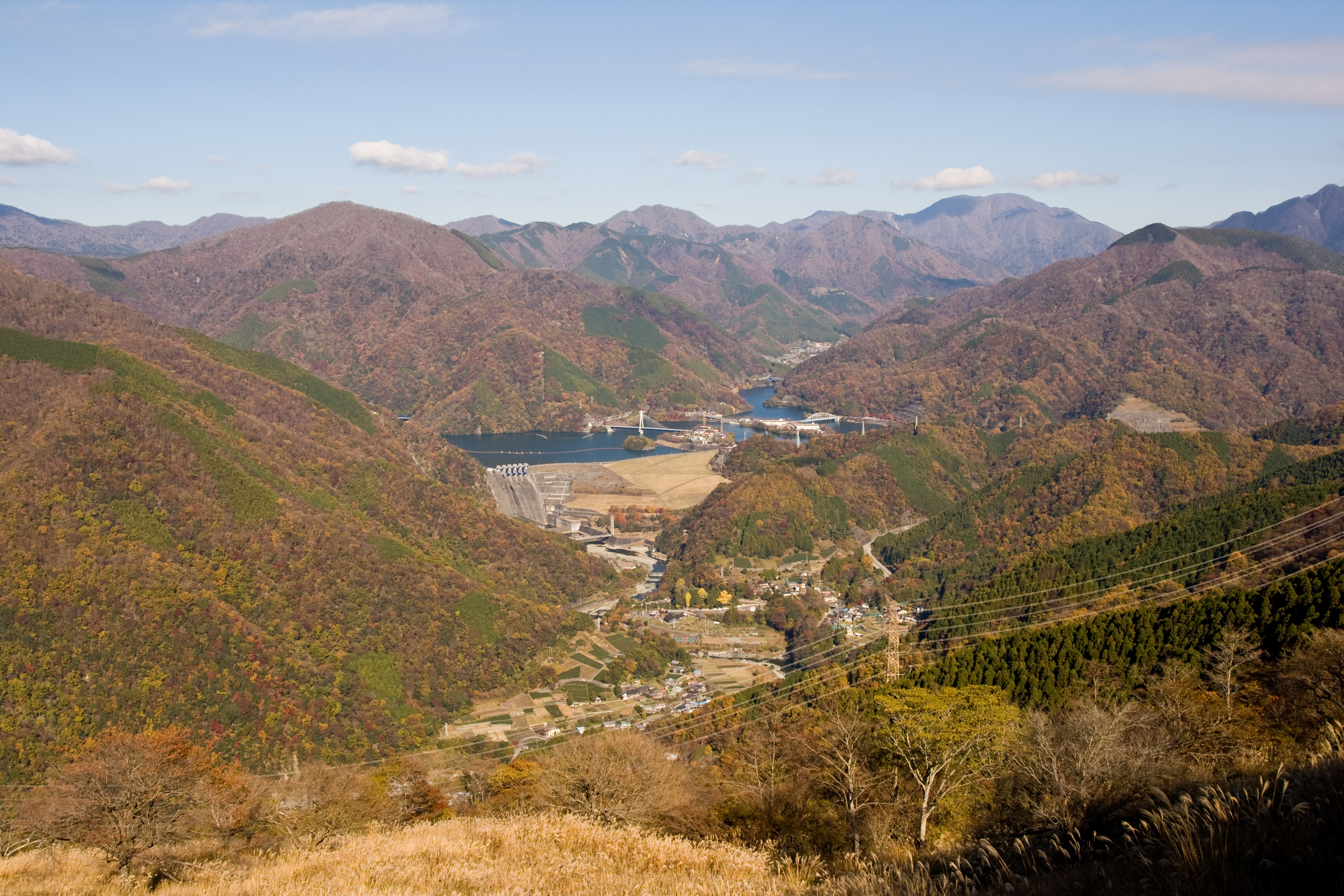 Lake Tanzawa, Yamakita Town, Kanagawa Pref., Japan.